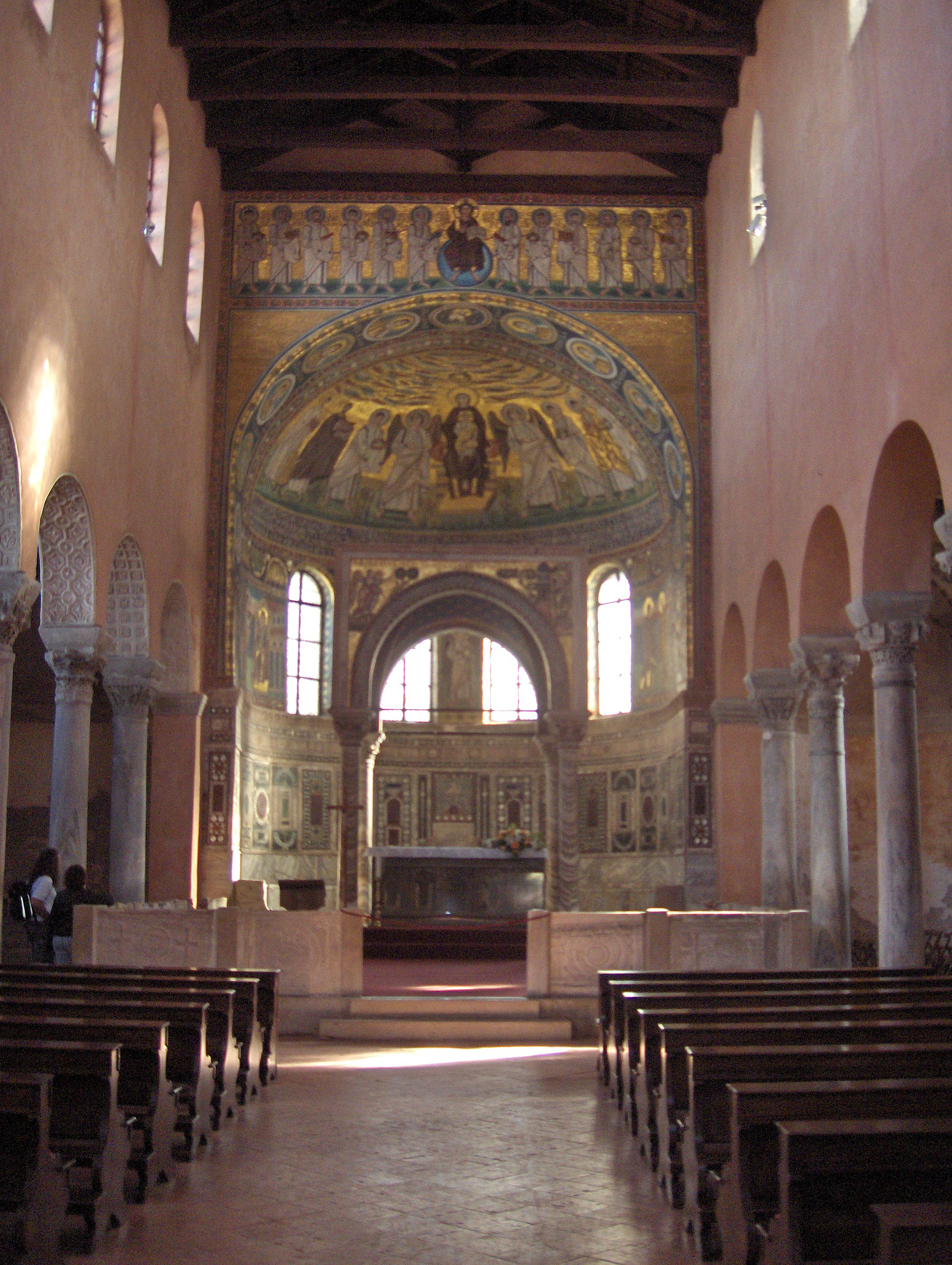 Central nave, altar and ciborium of the St. Euphrasius basilica, Poreč, Croatia